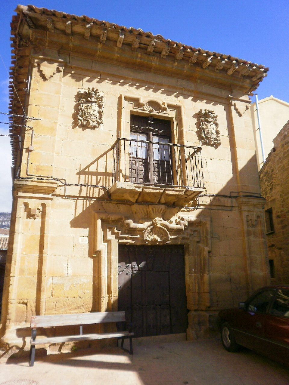 Casa del Virrey de Nápoles, Ábalos (La Rioja, España)